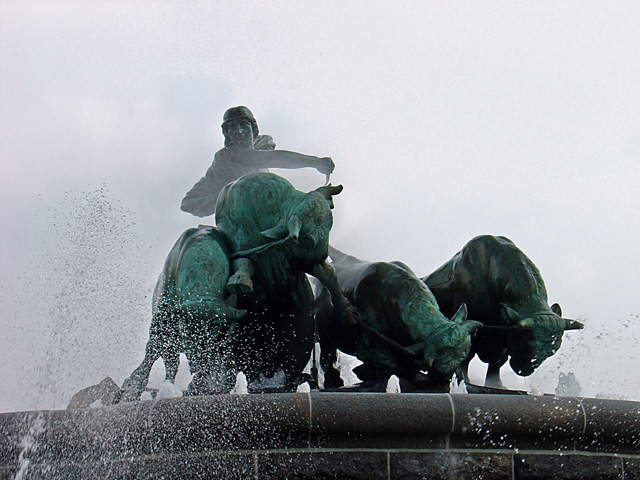 The Gefion Fountain in Copenhagen.